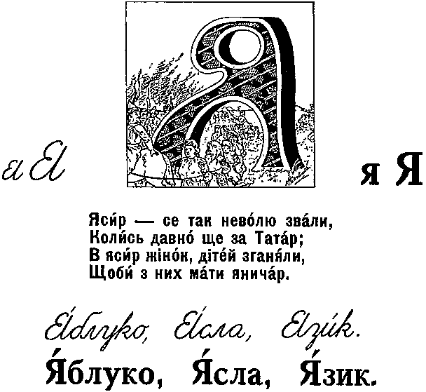 Iotated A